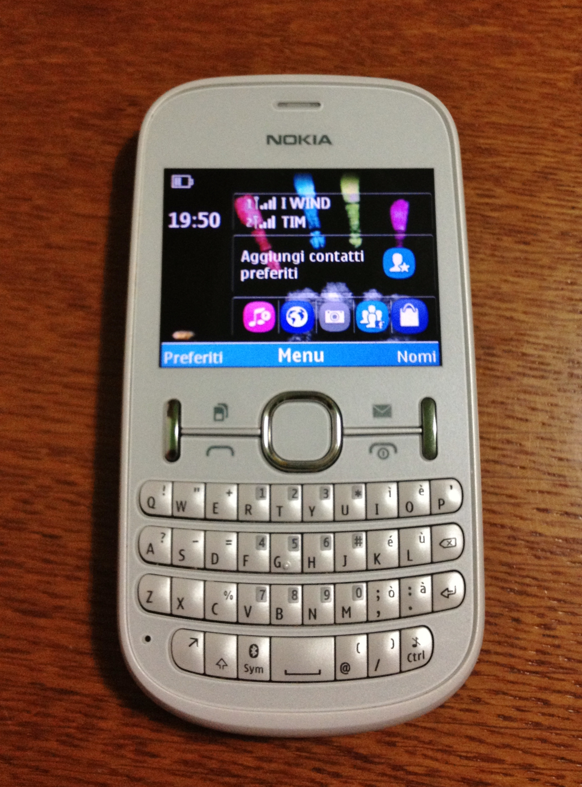 Nokia Asha 200 in Italy